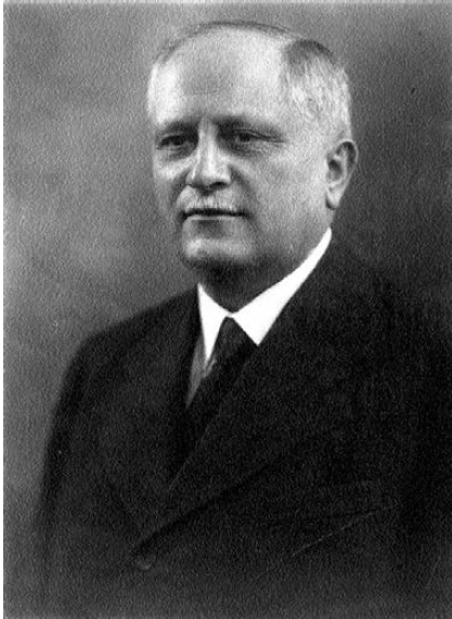 Fotography of the Romanian politician Petre Poruțiu, deputy in the Great National Assembly from Alba Iulia, on behalf of the Electoral district of Bistrița - Romania, 1918Română: Fotografie a lui Petre Poruțiu, deputat în Marea Adunare Națională de la Alba Iulia, din partea Cercului electoral Bistrița, 1918